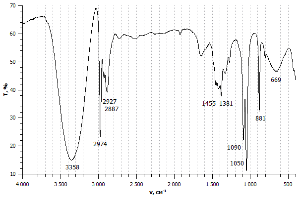 Ethanol IR spectrum was recorded by myself (liquid film). The data corresponds to that from